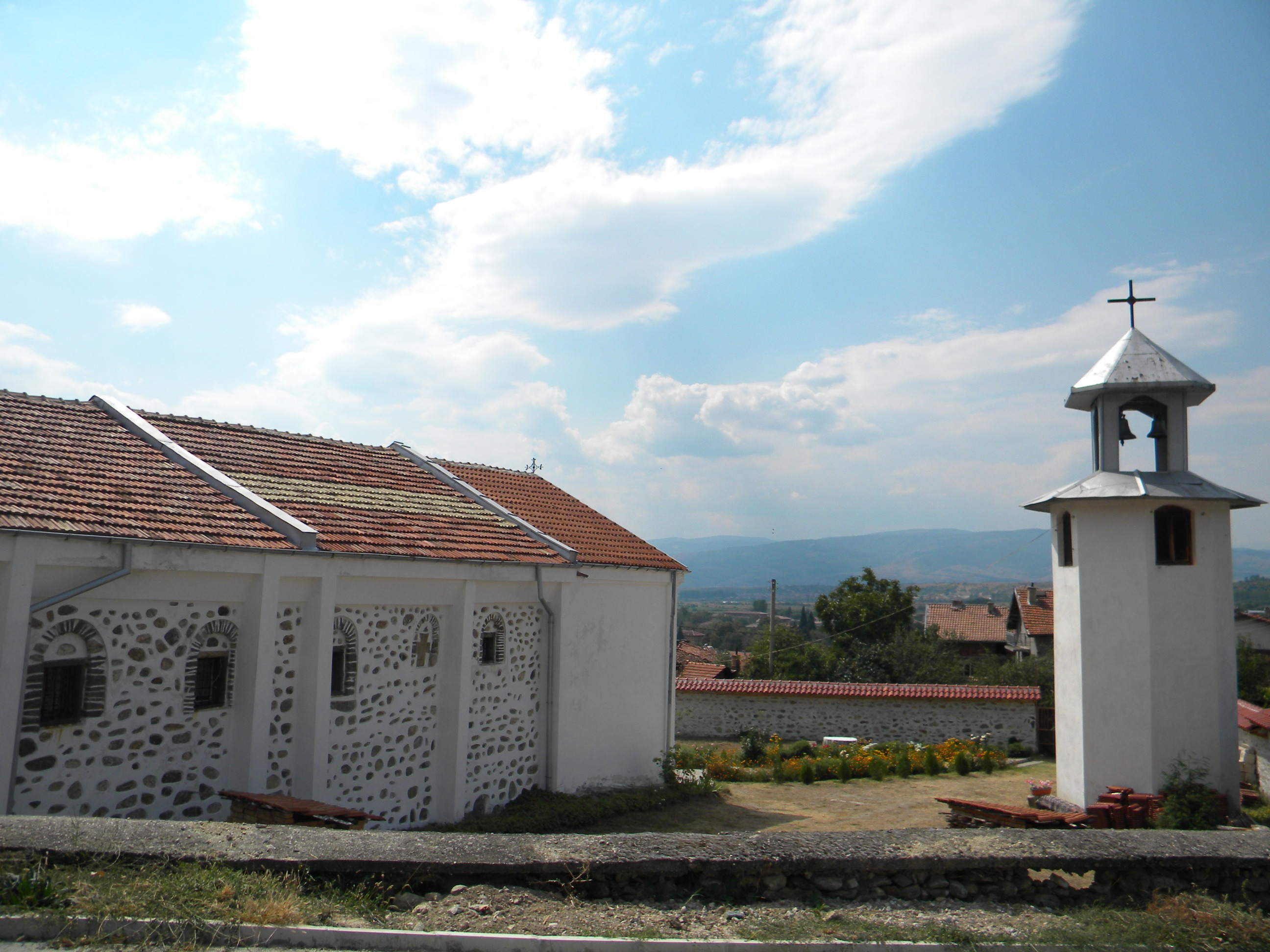 St. Procopus church in Stob, Bulgaria]